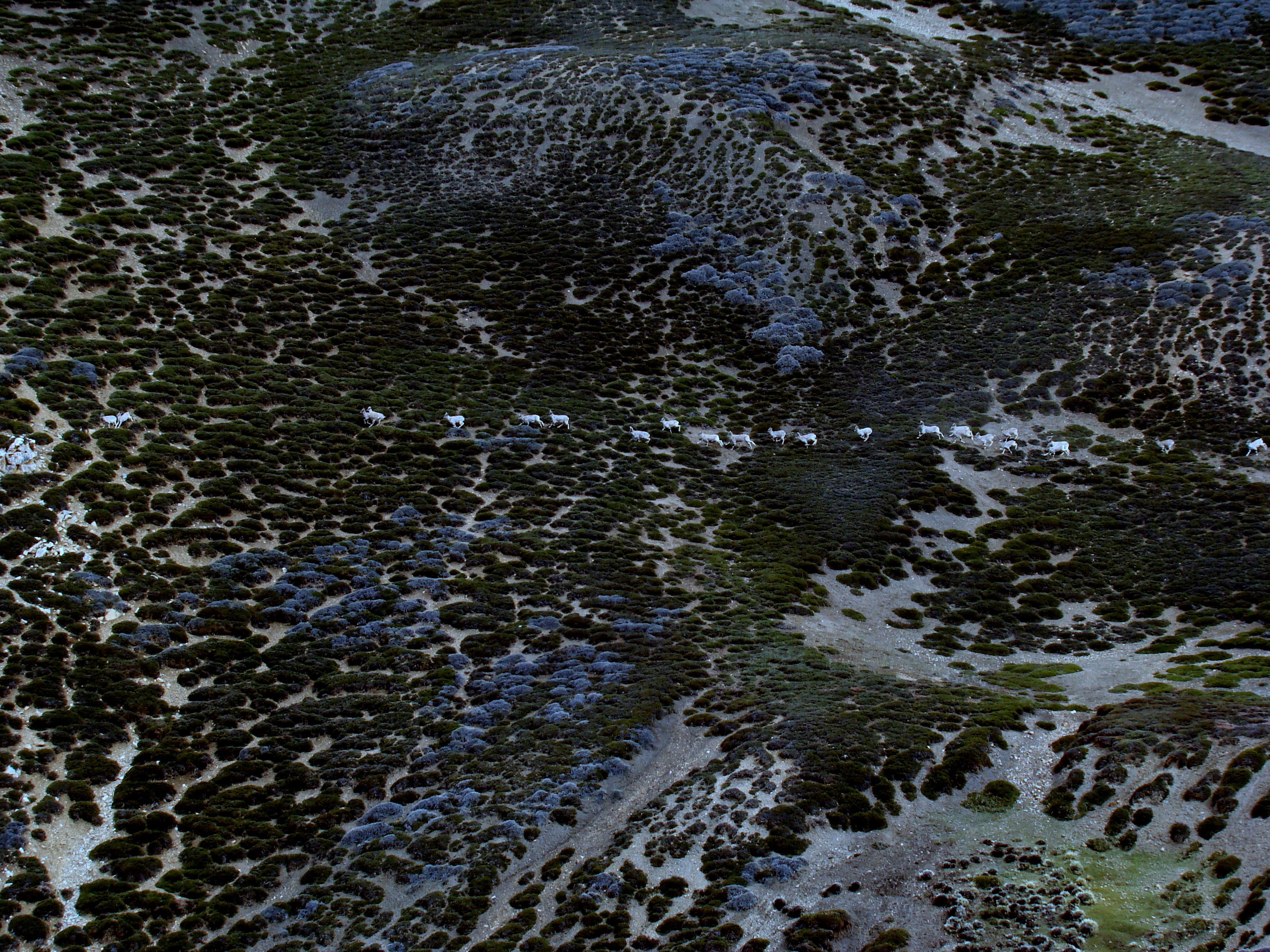 A herd of blue sheep (Pseudois nayaur) or bharal in Lingti Valley, Himachal Pradesh